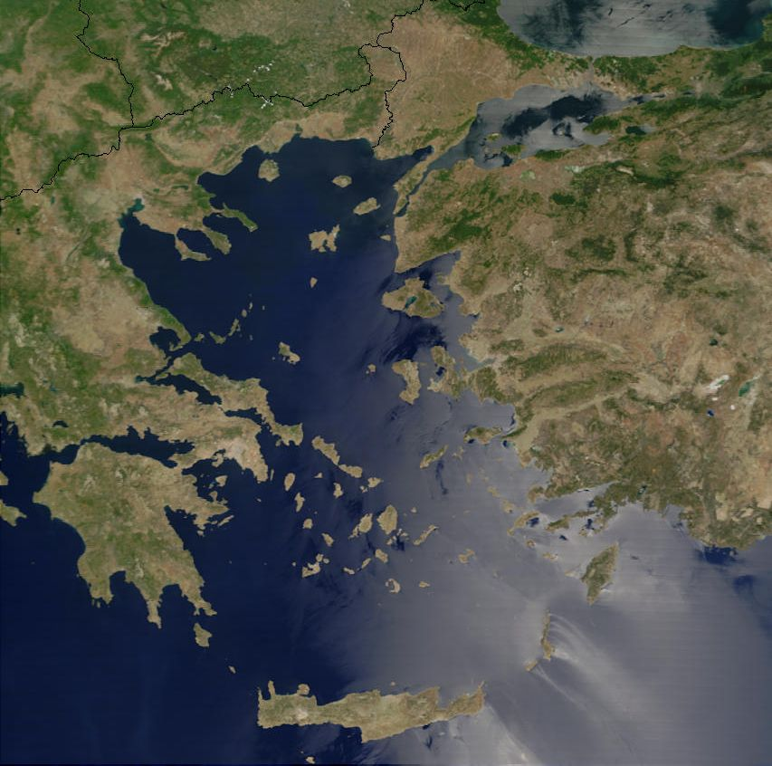 Satellite picture of Aegean Sea, Greece